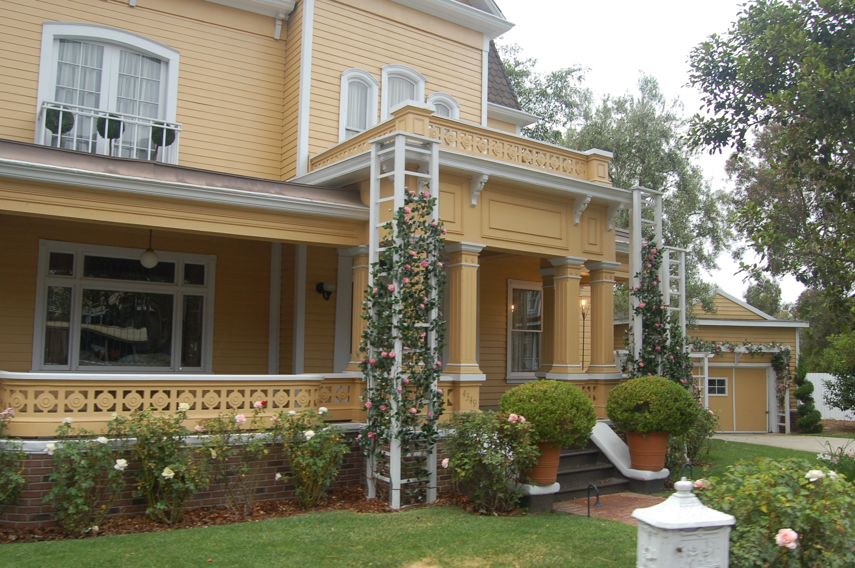 Wisteria Lane - Gaby & Carlos Solis